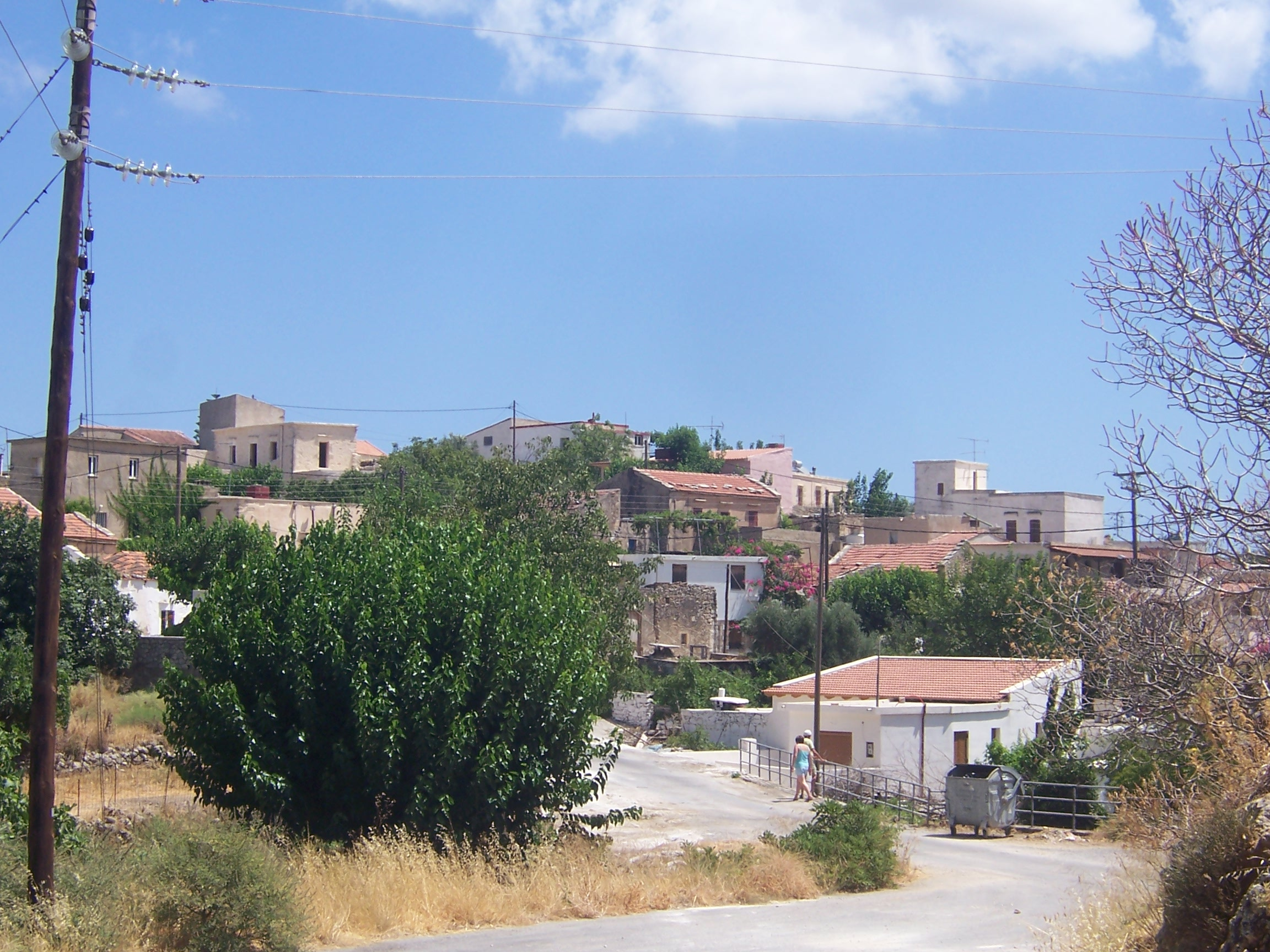 village of Vafes (Crete, Greece)